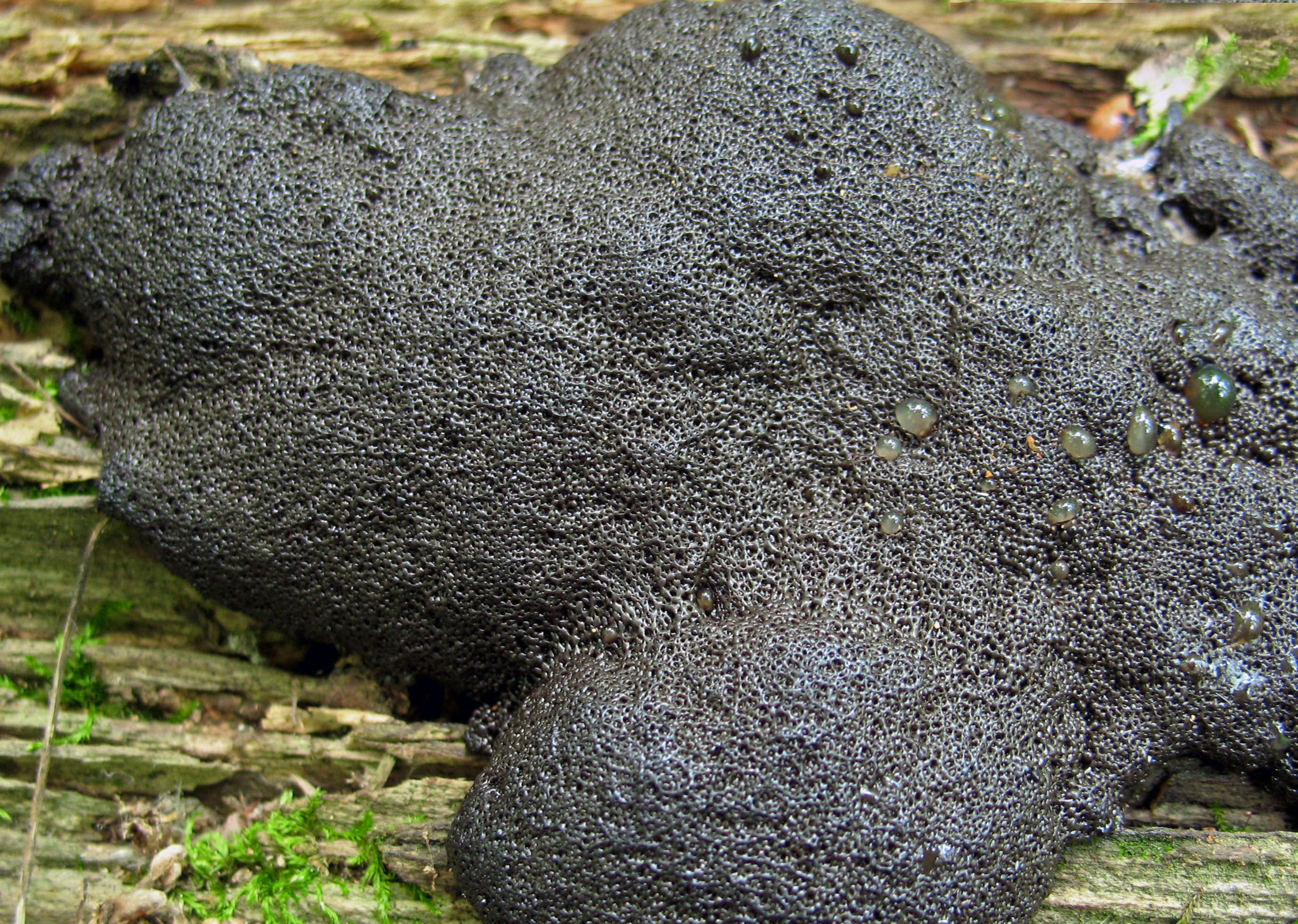 The fruiting bodies (so called pseudoaethalia) of the myxomycete Lindbladia tubulina are often formed on wood of common pine (Pinus sylvestris). Myxomycetes are giant amoebae, capable of forming fungi-like fruiting bodies